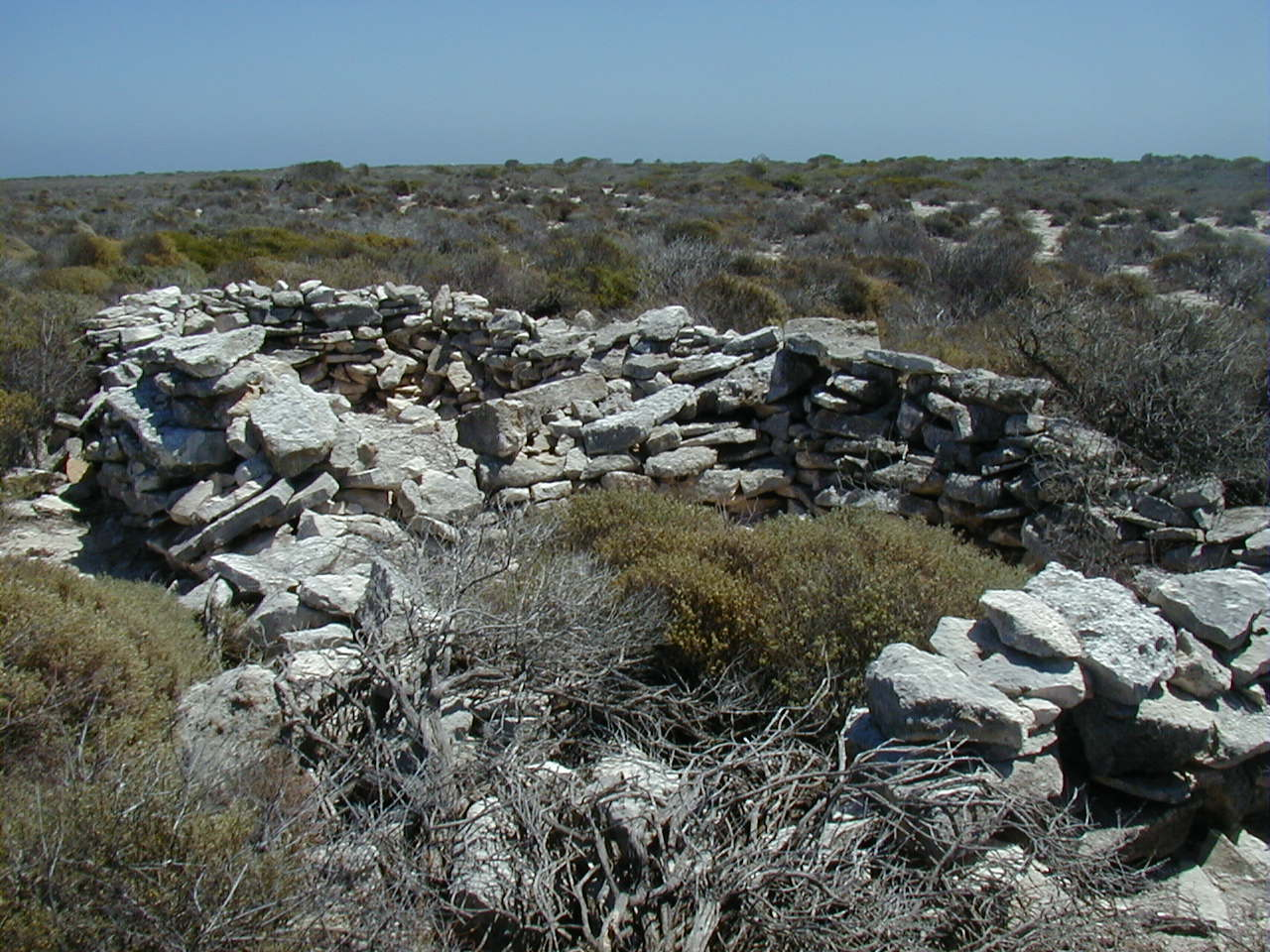 This structure is a defensive position and lookout post constructed in 1629 on West Wallabi Island, Wallabi Group, Abrolhos Island, off the central west coast of Western Australia, by a group known as the Defenders, who were holding out against the mutineers during the Batavia Mutiny